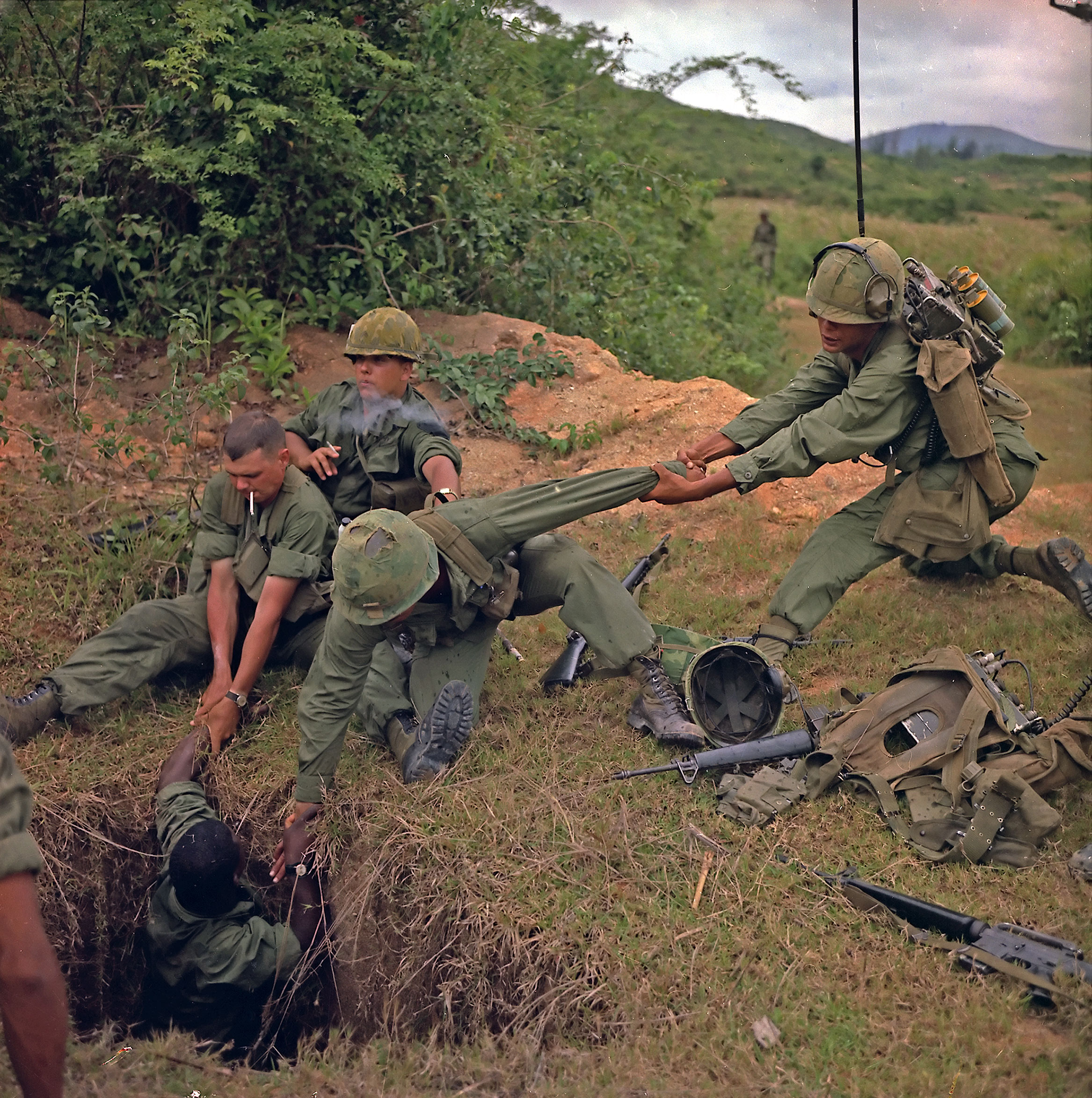 Operation "Oregon," a search and destroy mission conducted by an infantry platoon of Troop B, 1st Reconnaissance Squadron, 9th Cavalry, 1st Cavalry Division (Airmobile), three kilometers west of Duc Pho, Quang Ngai Province. An infantryman is lowered into a tunnel by members of the reconnaissance platoon.